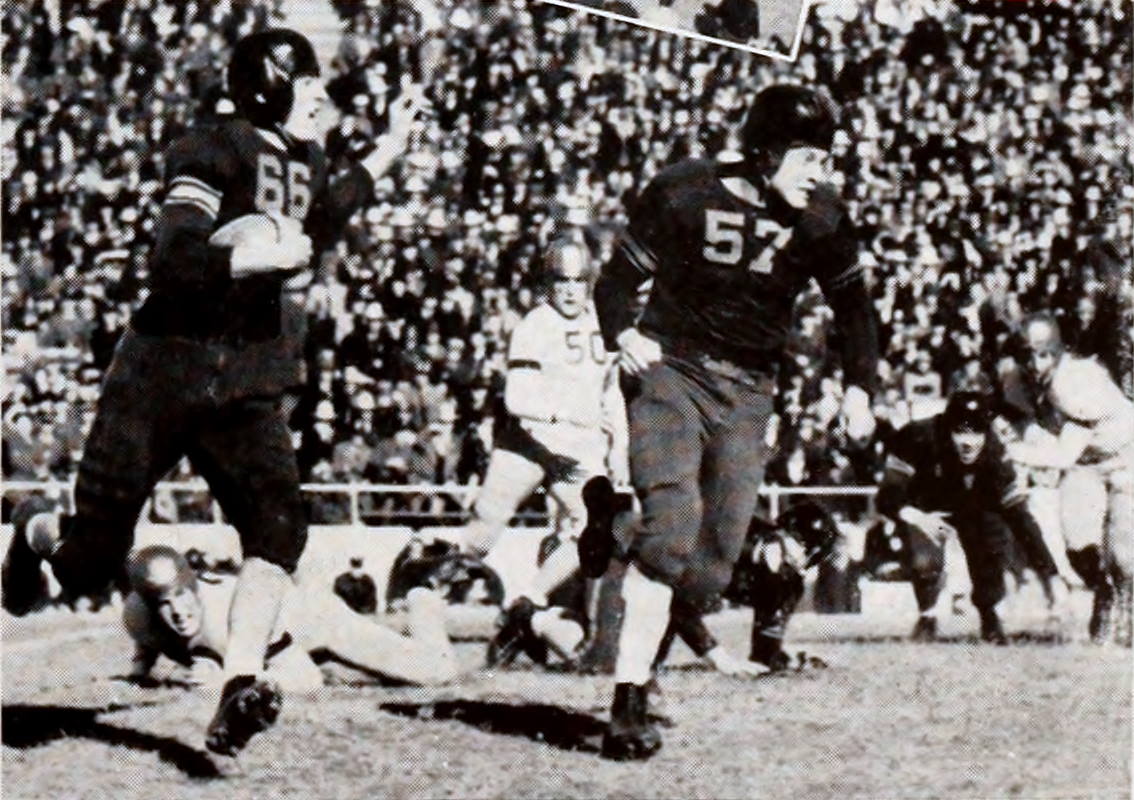 Banks McFadden carries the ball for Clemson against Boston College in the 1940 Cotton Bowl Classic